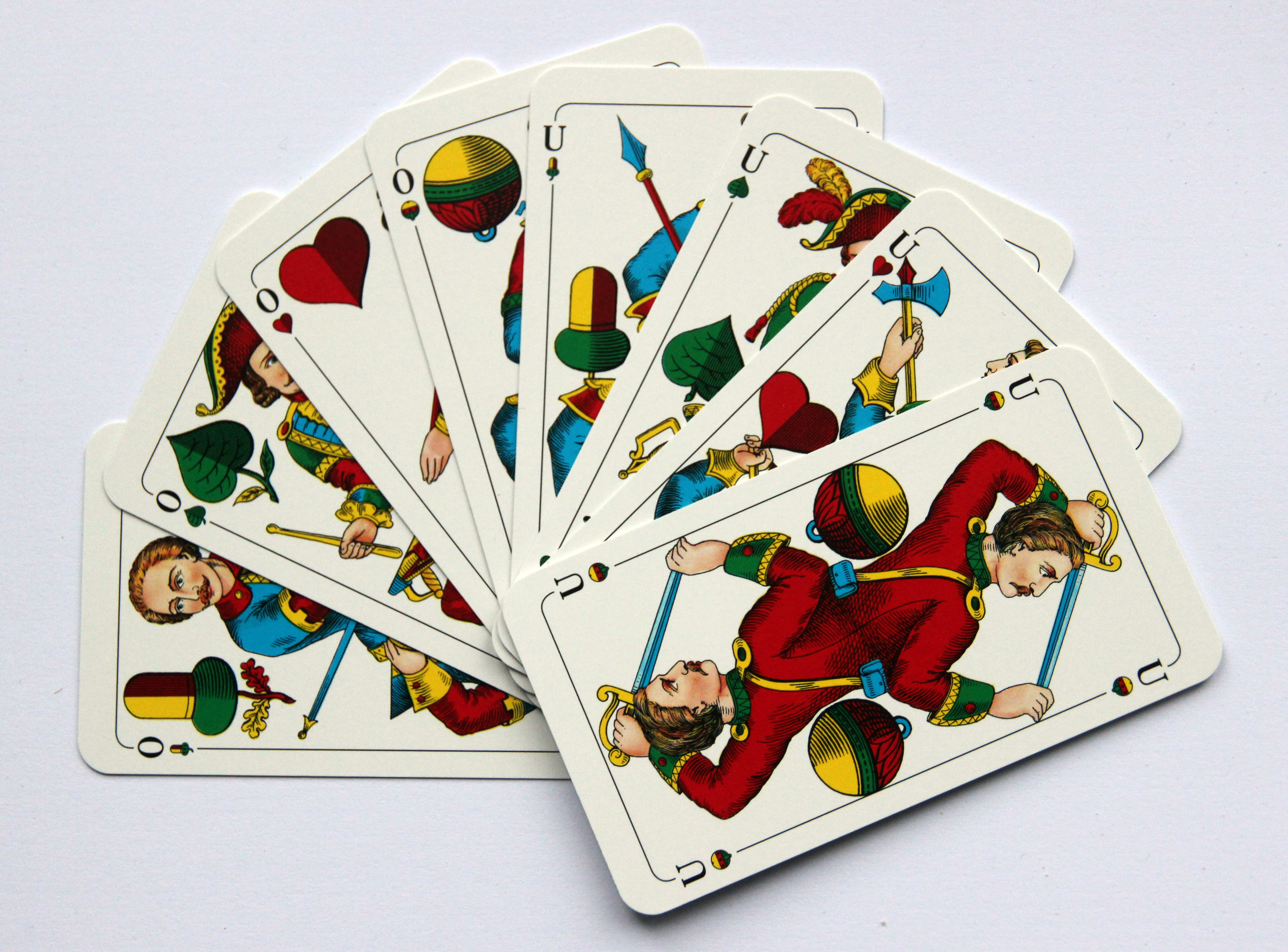 The top trumps in Schafkopf from a Franconian-pattern pack